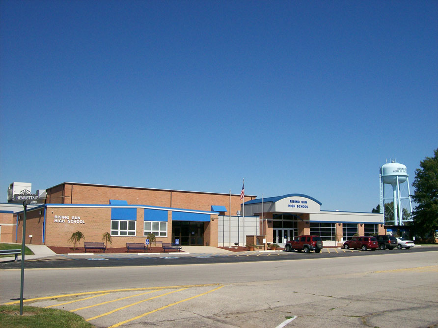 Image of Rising Sun High School